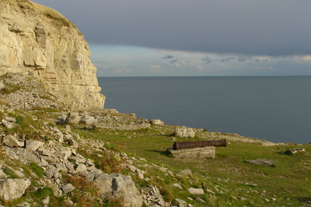 Hedbury Quarry The seaward side of the east part of the disused Portland Stone quarry, with old spoil heaps on the left and the top of the short sea cliff on the right. The cannon in the middle of the photo may have come from the disastrous wreck of the Halsewell (in 1786), but it may also have come from a coastal battery. It was once lying amongst the spoil at the quarry, but is now mounted facing seawards on a stone plinth. The Halsewell was wrecked on its way to India on the nearby Halsewell Bars with the loss of 166 lives - either the two identical names are an incredible coincidence, or the rocks between Seacombe and Winspit were named after the ship that they wrecked.